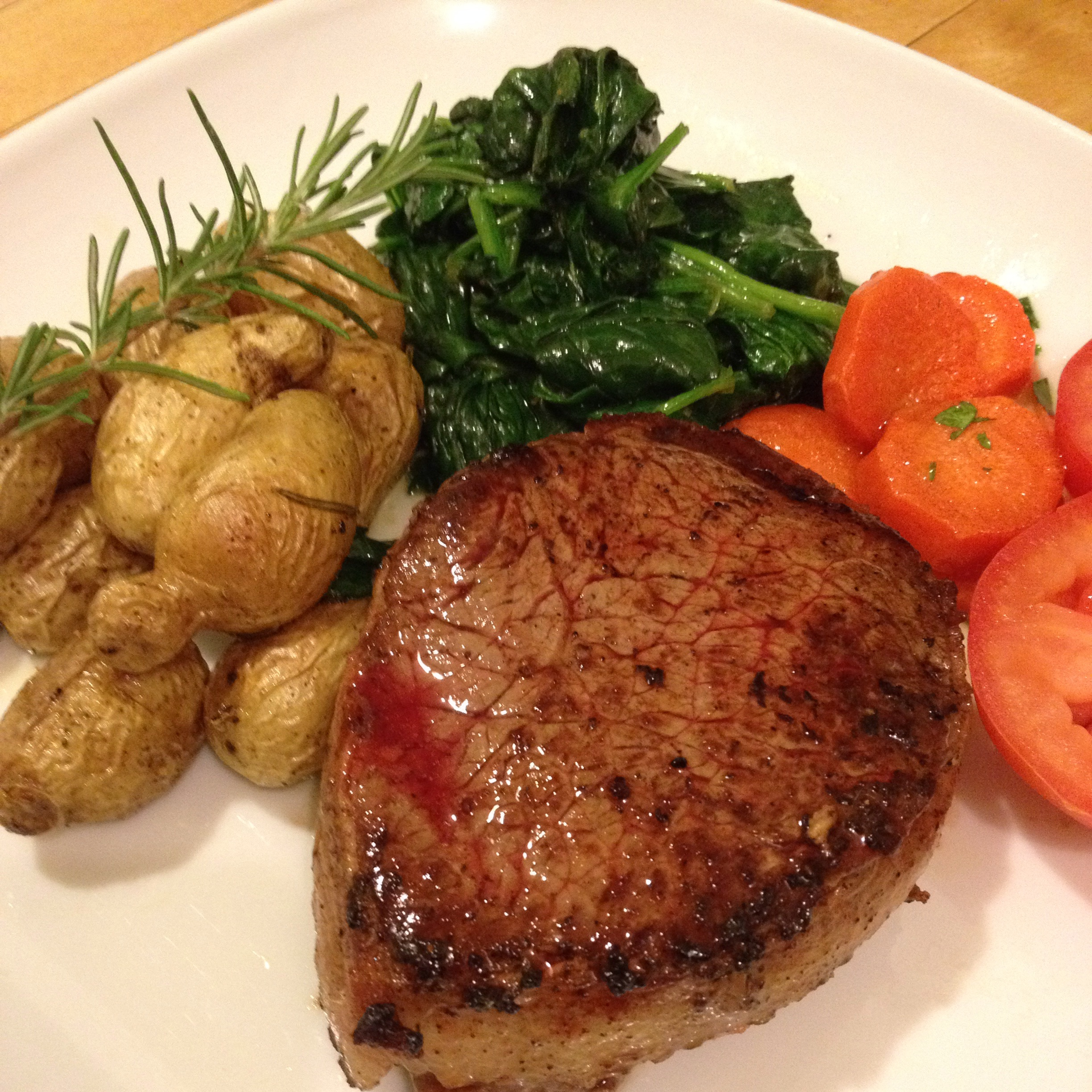 Filet mignon wrapped with bacon with assorted vegetables フィレミニョンのベーコン巻き 温野菜添え